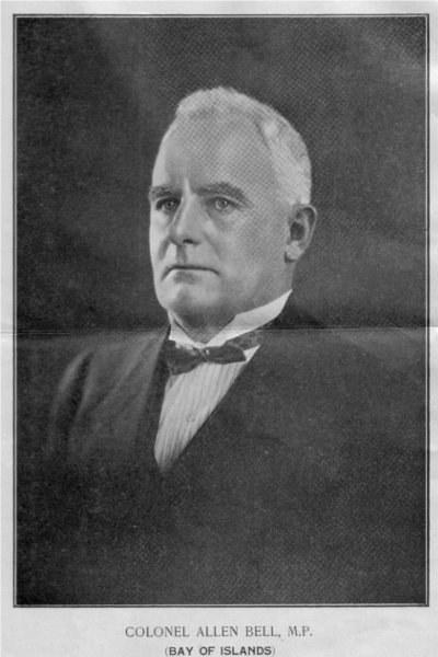 Picture of Allen Bell, MP for Bay of Islands, circa 1922.